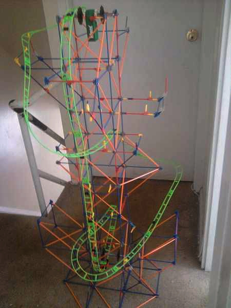 The photo shows a rollercoaster that I built from mini-K'nex pieces.